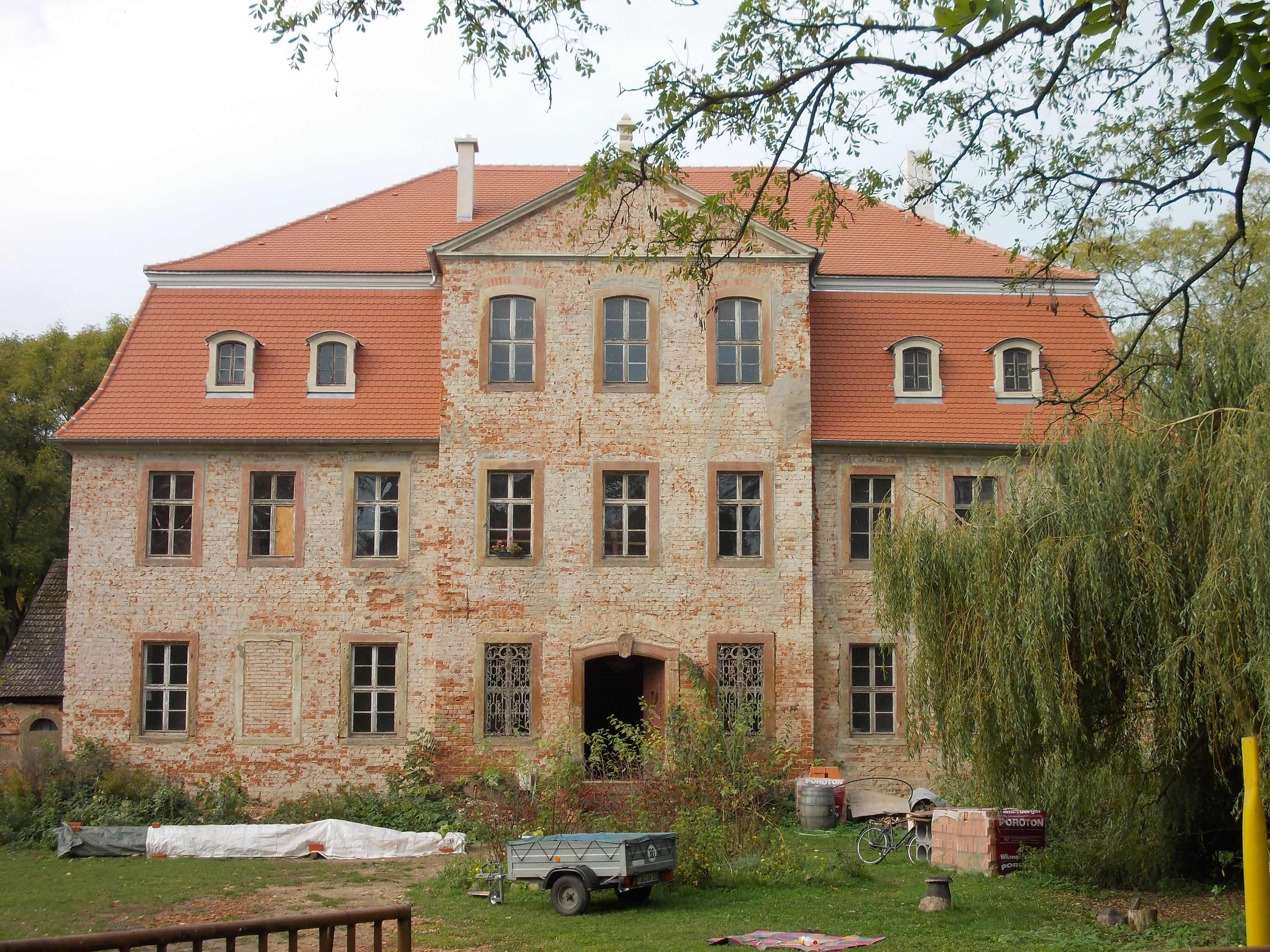 Audigast Castle (Groitzsch, Leipzig district, Saxony)